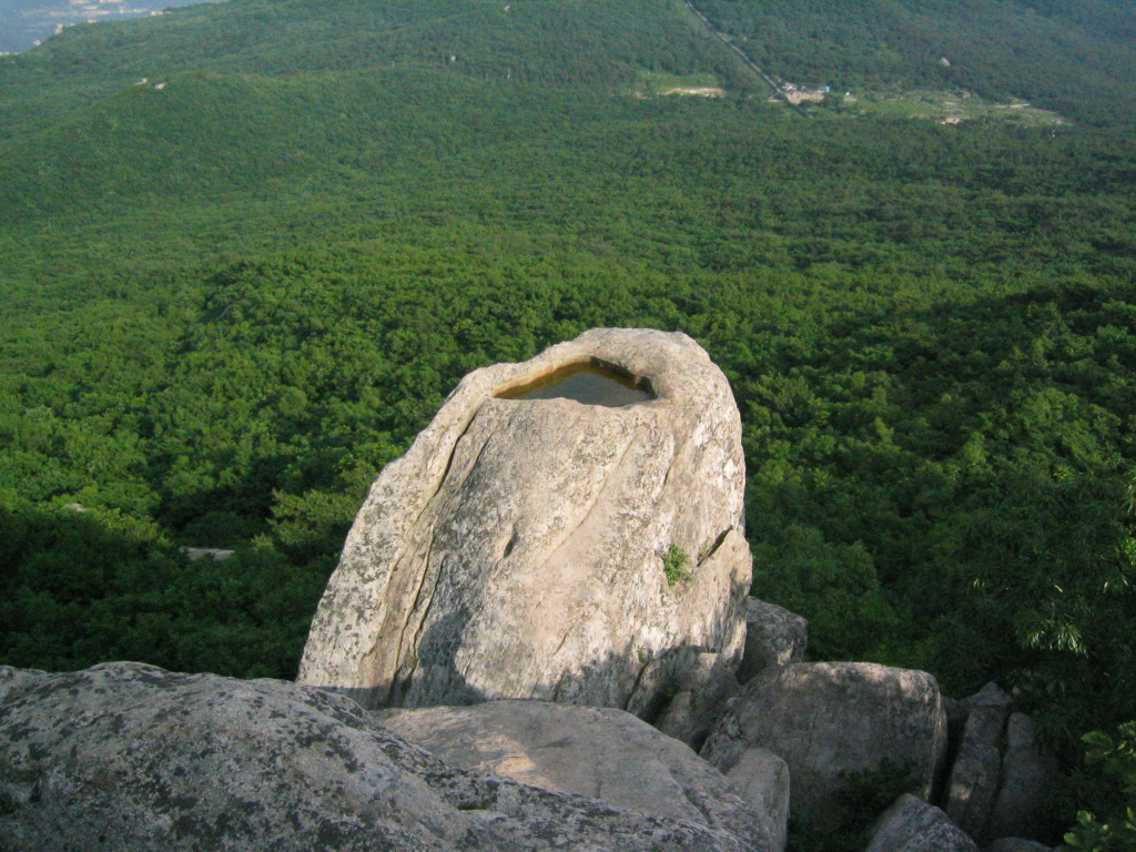 Geumsaem, the golden fountain, on Geumjeongsan in Busan, South Korea.